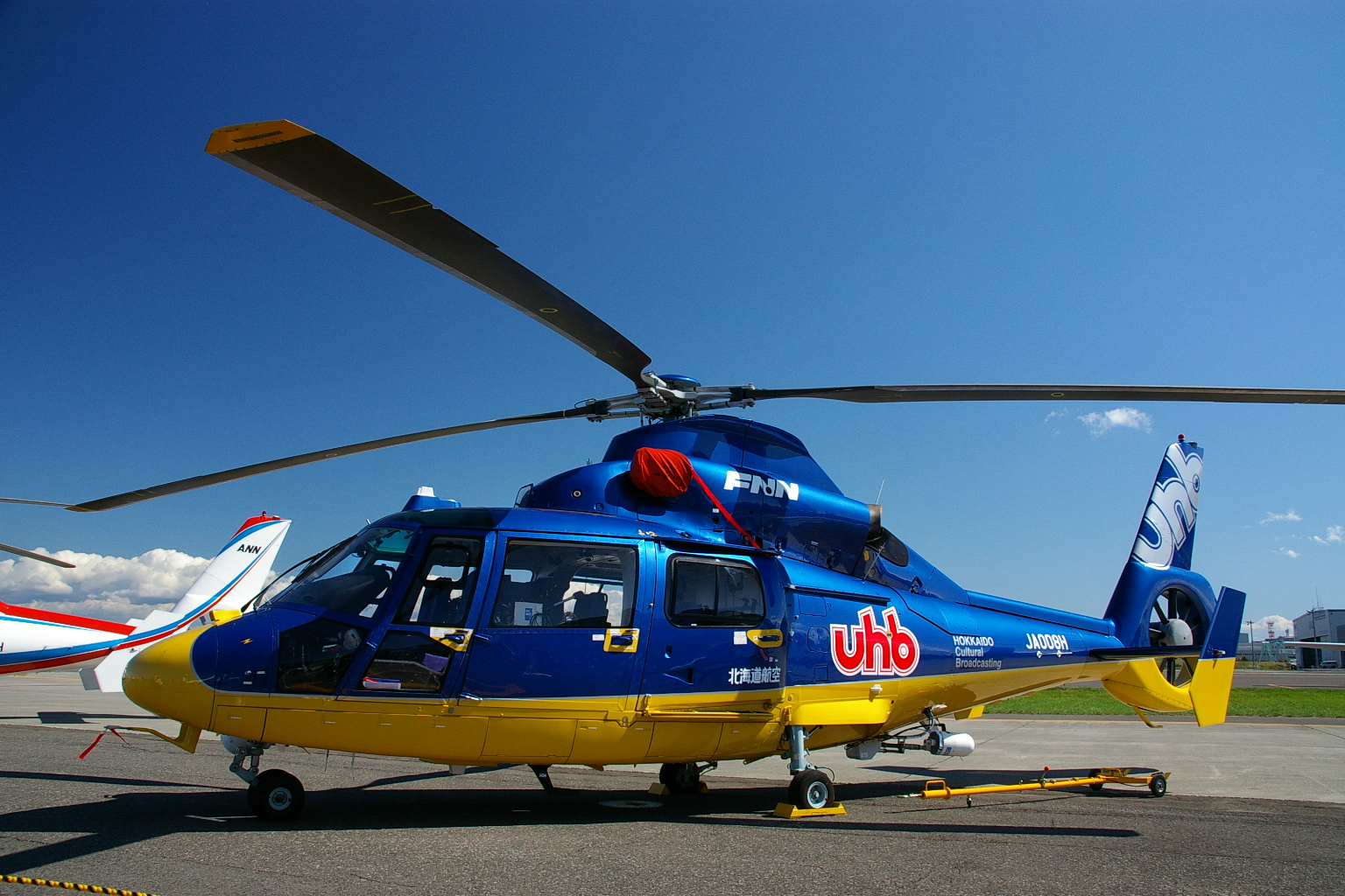 Eurocopter AS365N3, UHB, Hokkaido Aviation Co.